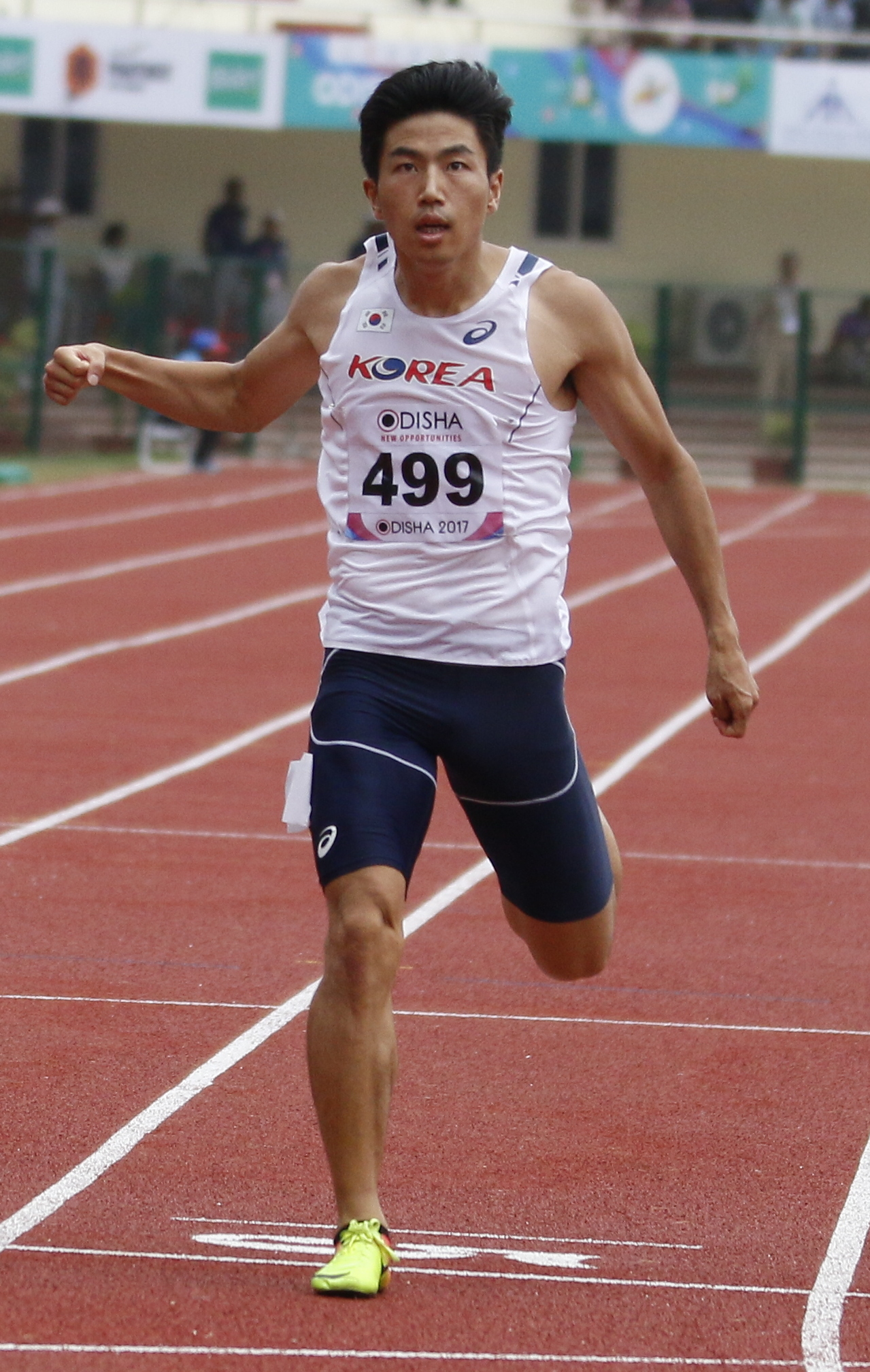 Athletes during 22nd Asian Athletics Championships in Bhubaneswar.